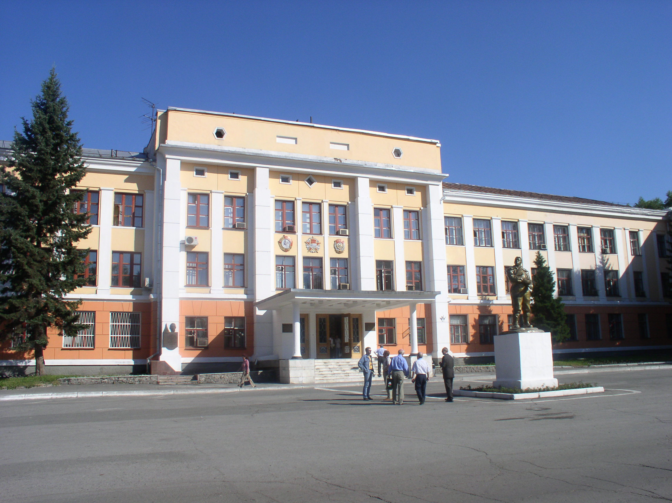 Novosibirsk Aircraft Production Association V. Chkalov